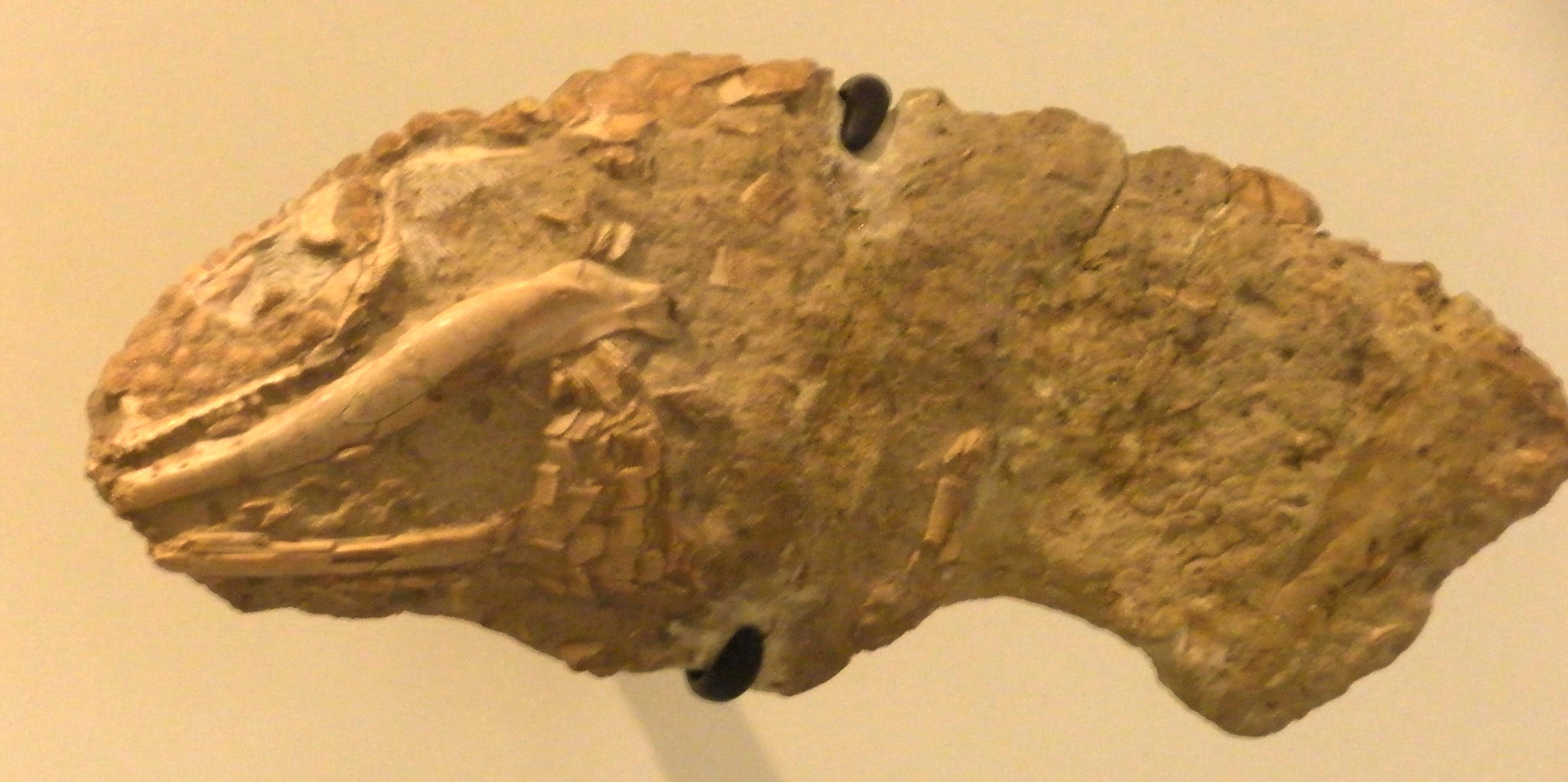 Skeleton of Helotermoides tuberculatus, a fossil saurian DateApril 2008Sourcetook the foto on the "American Museum of Natural History" in New YorkAuthorGhedoghedoPermission (Reusing this file)